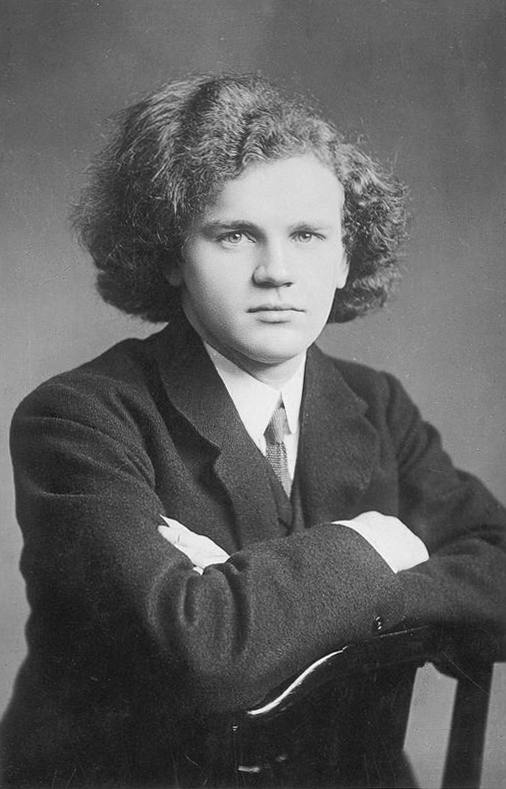 Rotary Photographic Co., London (active 1899-1910)